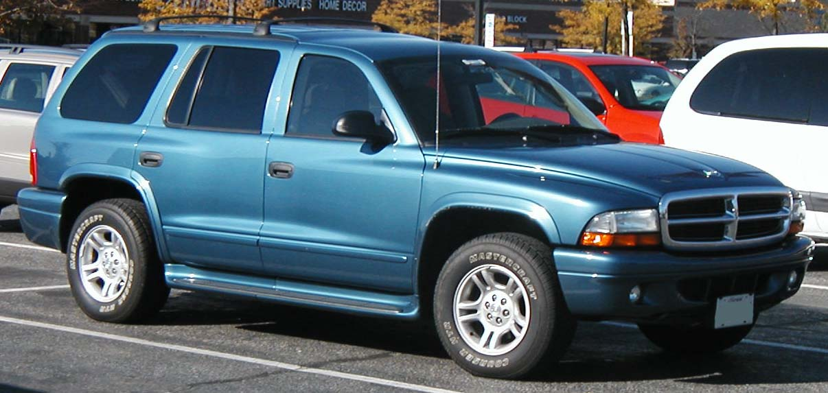 1998-2003 Dodge Durango photographed in USA.